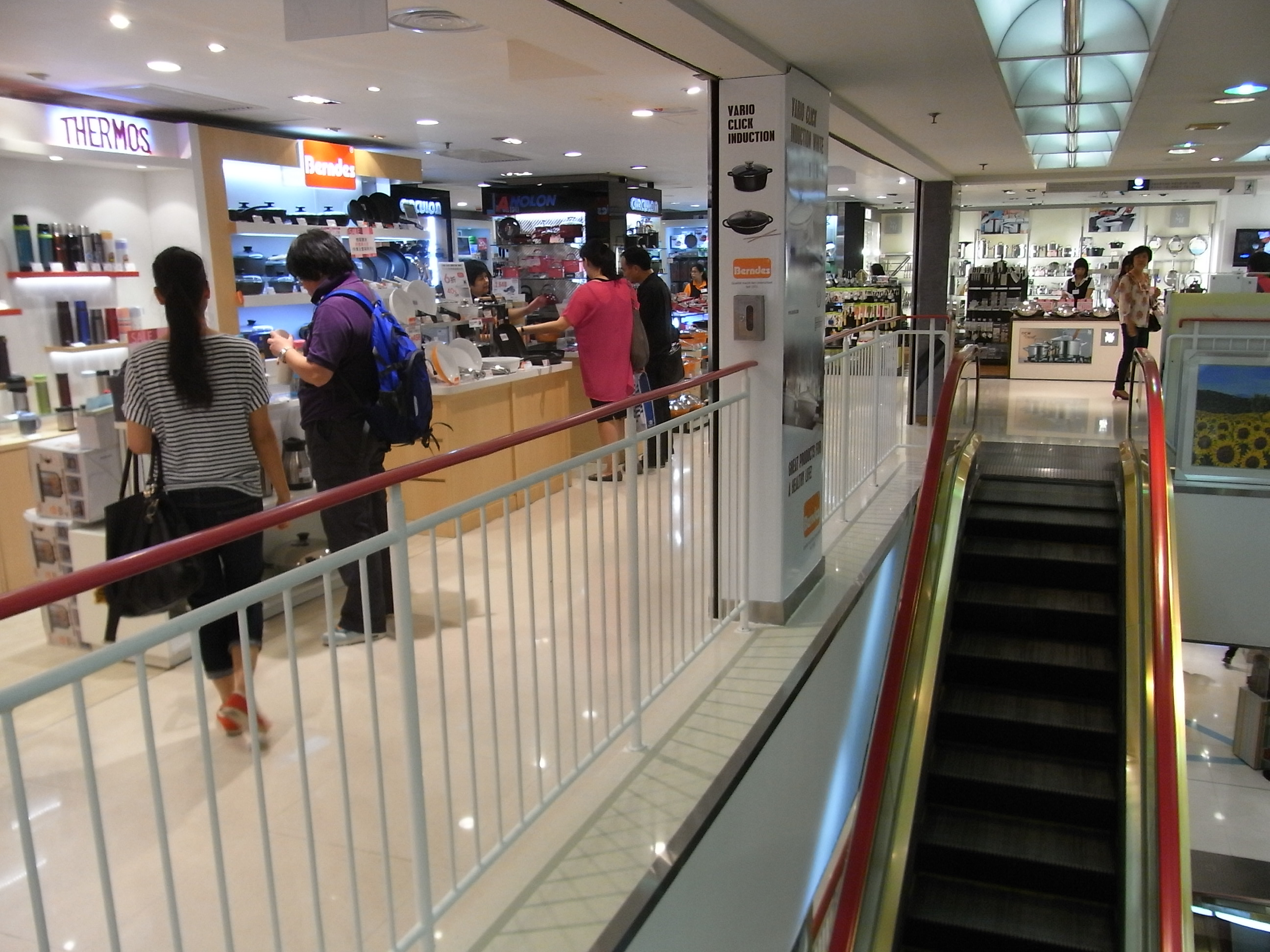 香港崇光百貨, SOGO Department Store, East Point Centre, Causeway Bay, Hong Kong